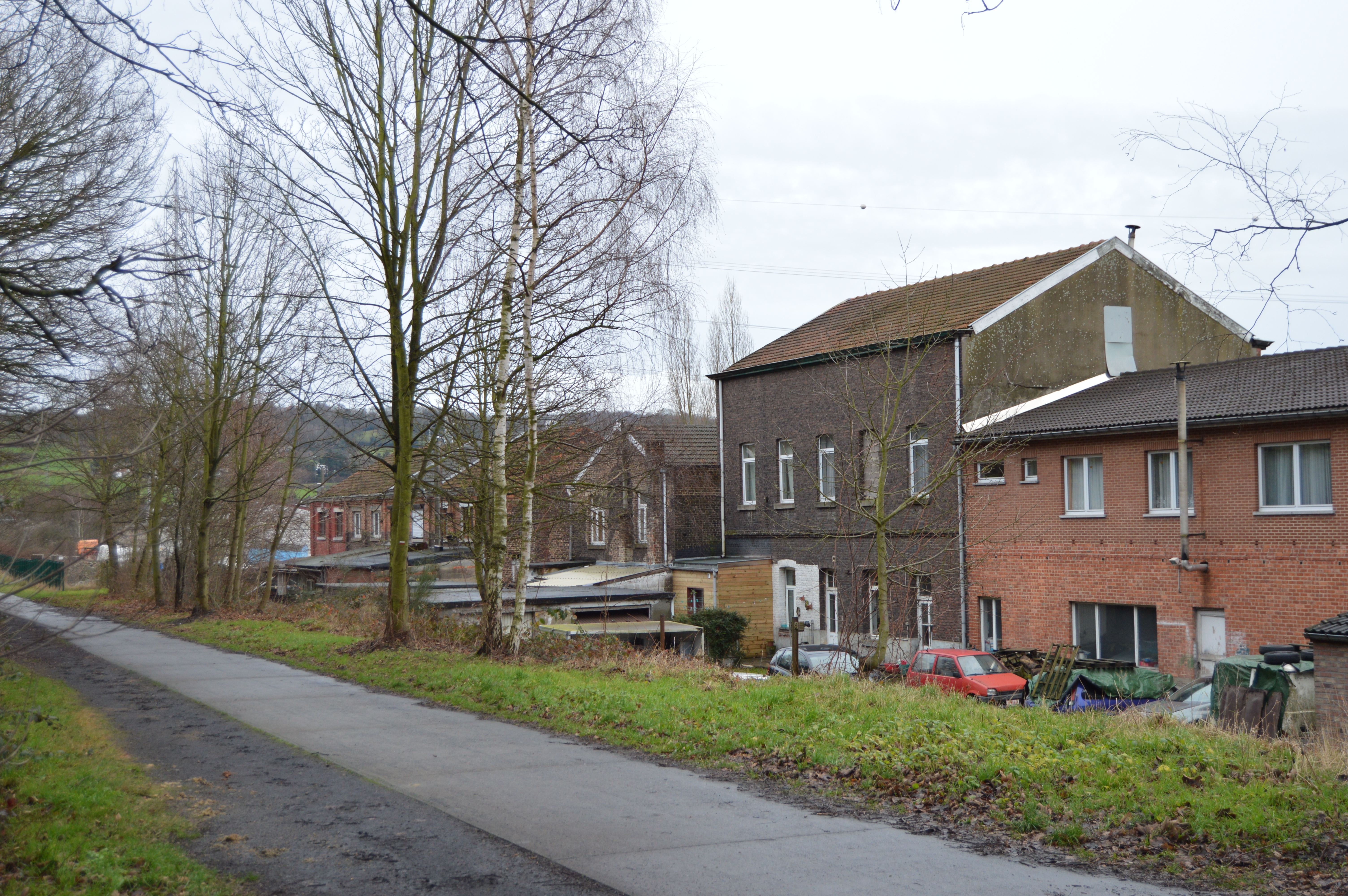 Ancient building (the highest one)the Basse Ransy coal mine in Vaux-sous-Chèvremont, Belgium. It can be seen on the right side of this ancient picture